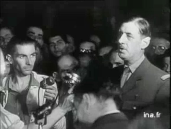 "For the first time in four years, a French microphone speaks French!" De Gaulle speaks to the media upon liberating Paris.